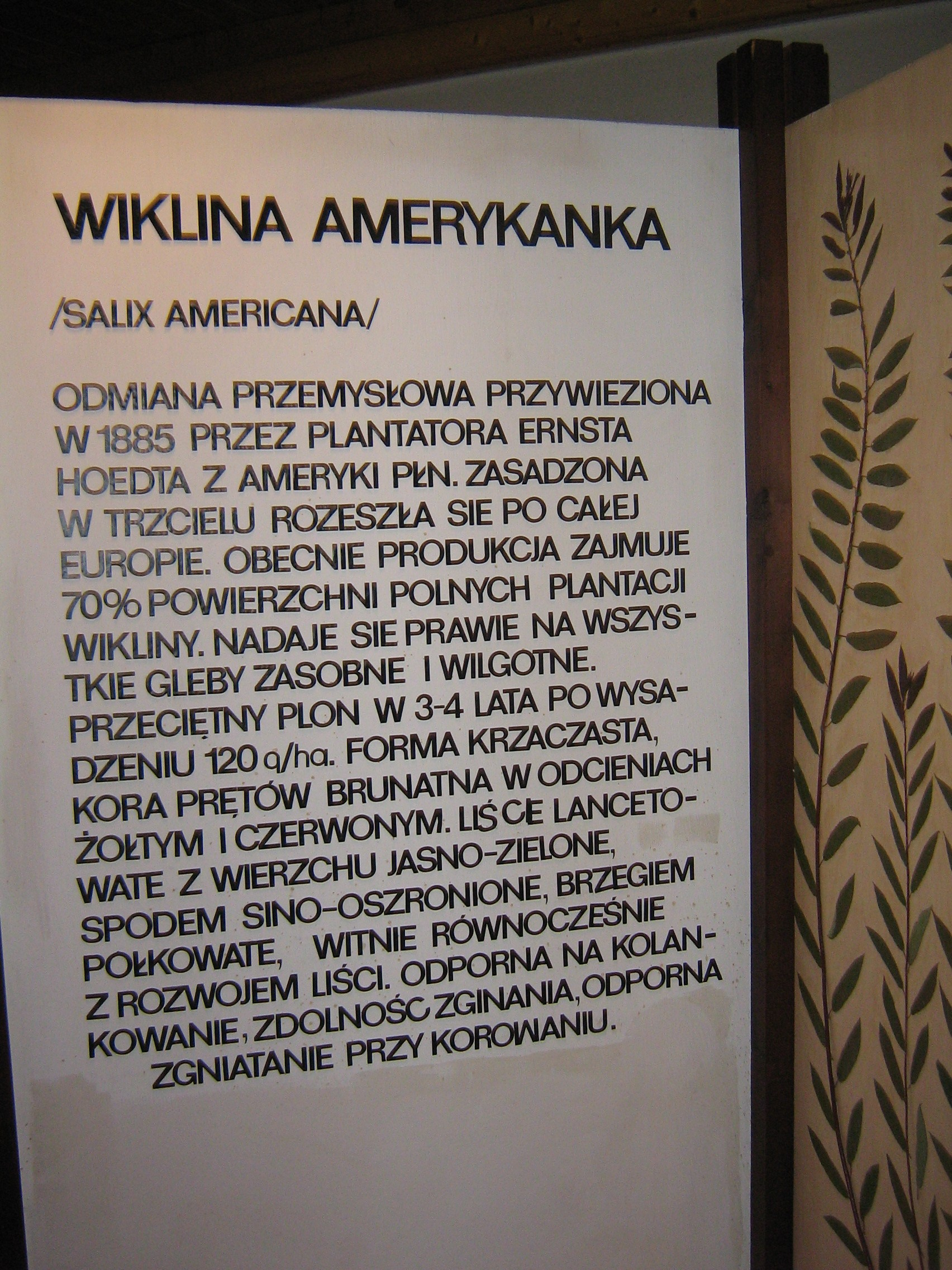 Information about salix americana (polish), Nowy Tomyśl, Poland